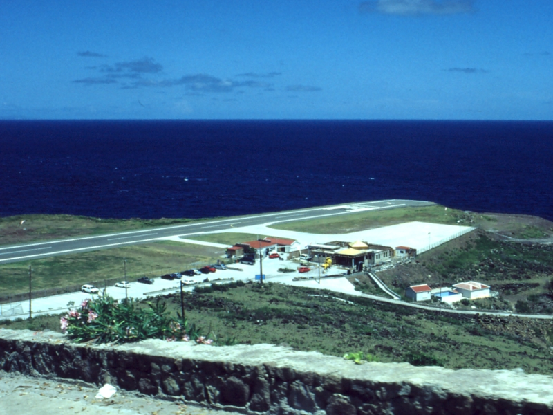 Picture of the airport of the island Saba (Juancho E. Yrausquin Airport), Netherlands Antilles. Taken by me in 2001 during holidays.